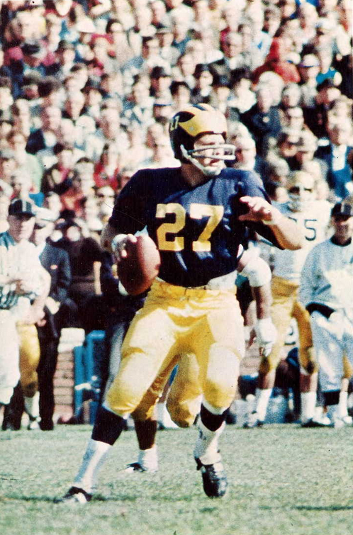 Photograph Dick Vidmer University of Michigan quarterback